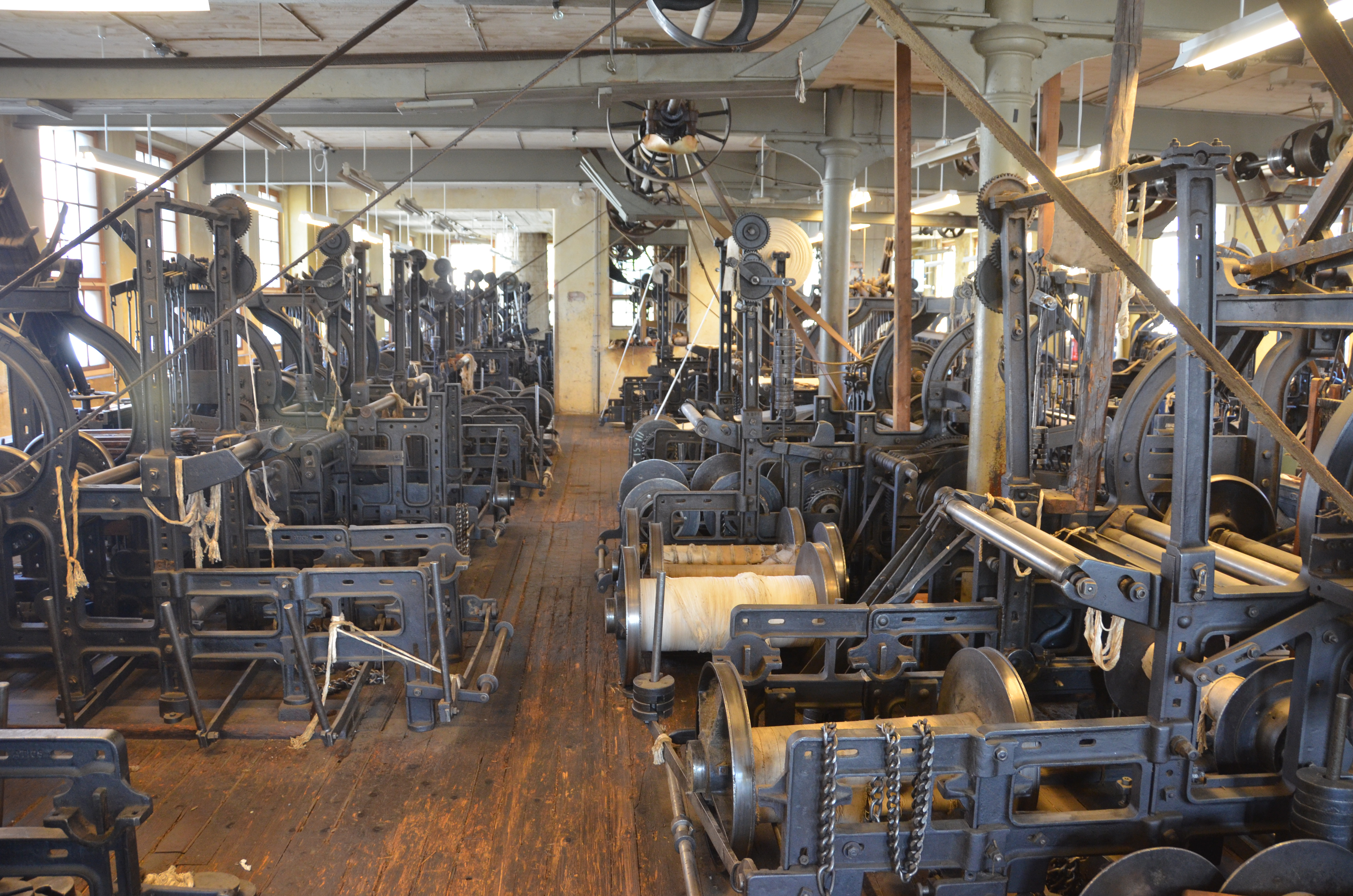 Central drive axle and set of looms in Göteborgs Remfabrik (Gothenburg Belt Factory) out of operation since 1977 and today part of on-site museum